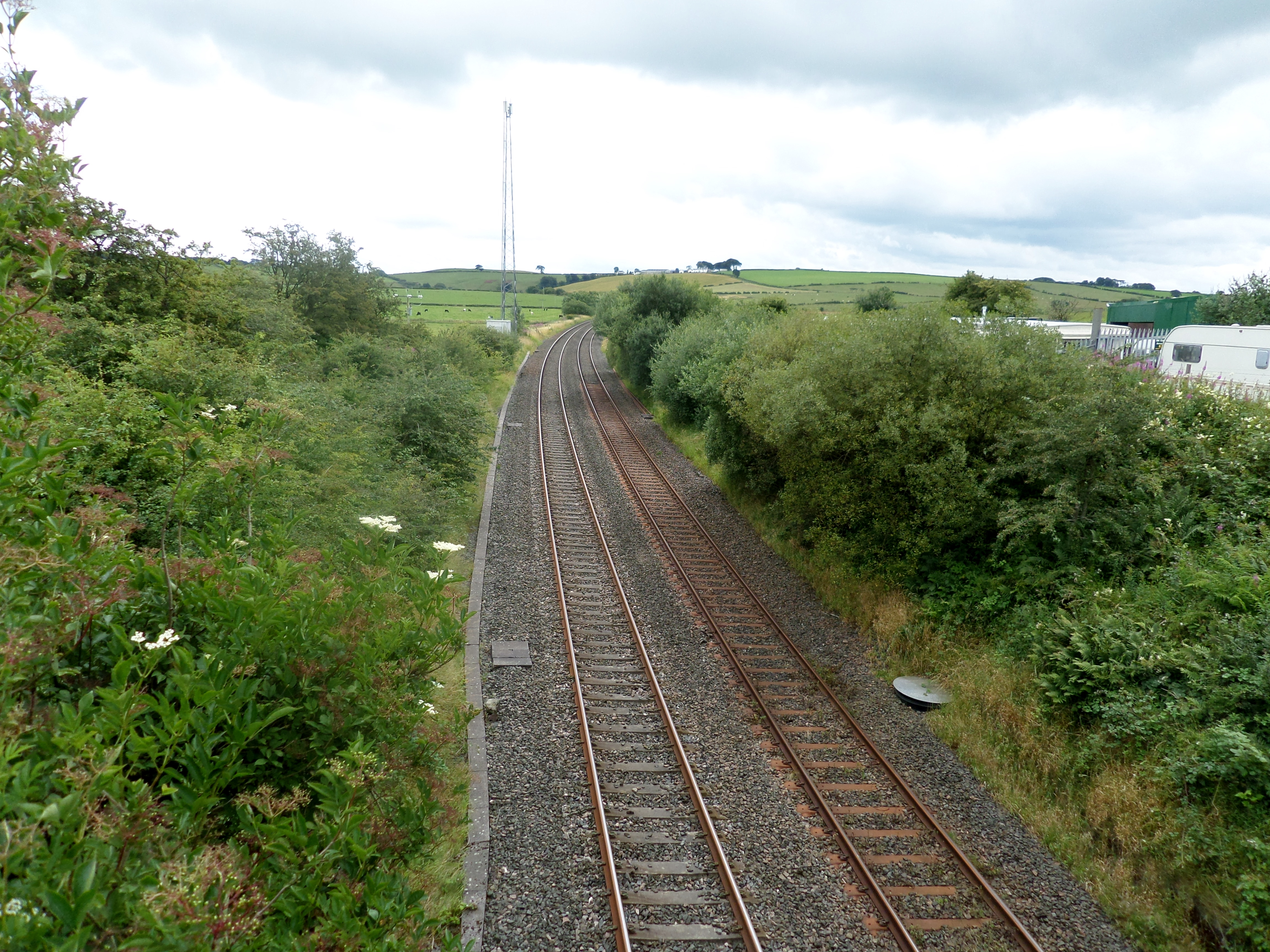 Garrochburn Goods Depot site, Mauchline, East Ayrshire, Scotland. Old G&SWR main line. Operated from circa 1898 to 1965. A signal box stood to the left.